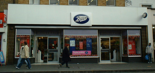 Boots the Chemist shop, Walworth Road, Southwark, South London by C Ford